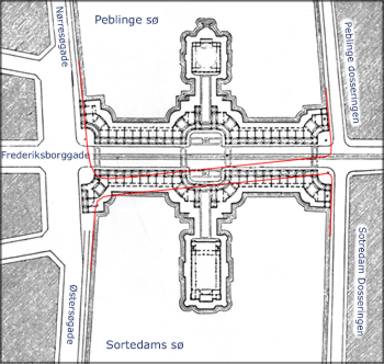 Emil Blichfeld's unrealized proposal for a Ponte Cechio-inspired bridge at the Dronning Louises Bro site in Copenhagen, Denmark